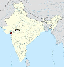 Location map of Surat, India. French spelling